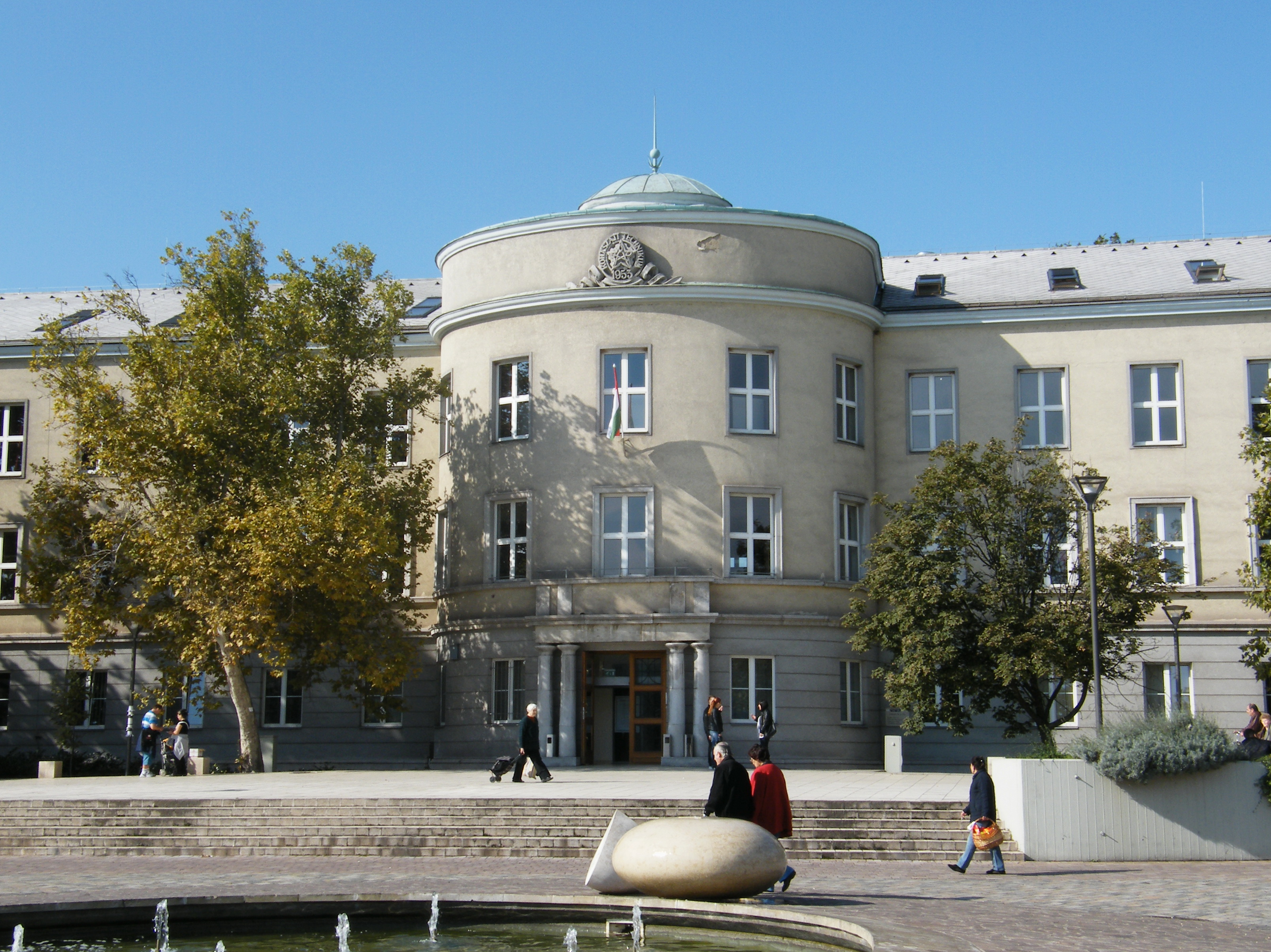 College, Dunaújváros